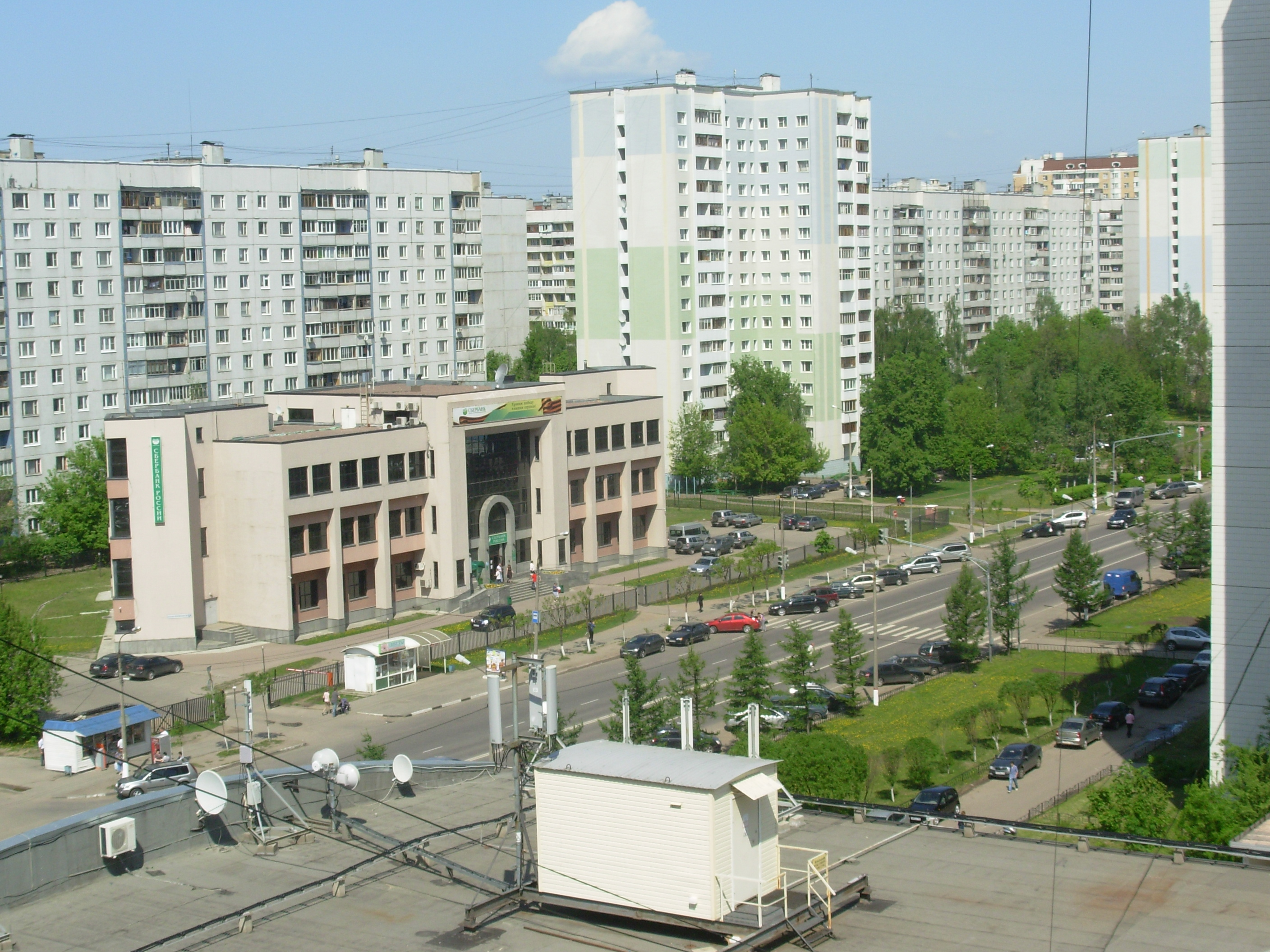 street